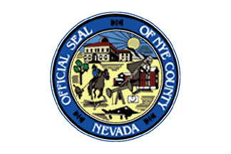 Flag of Nye County, Nevada